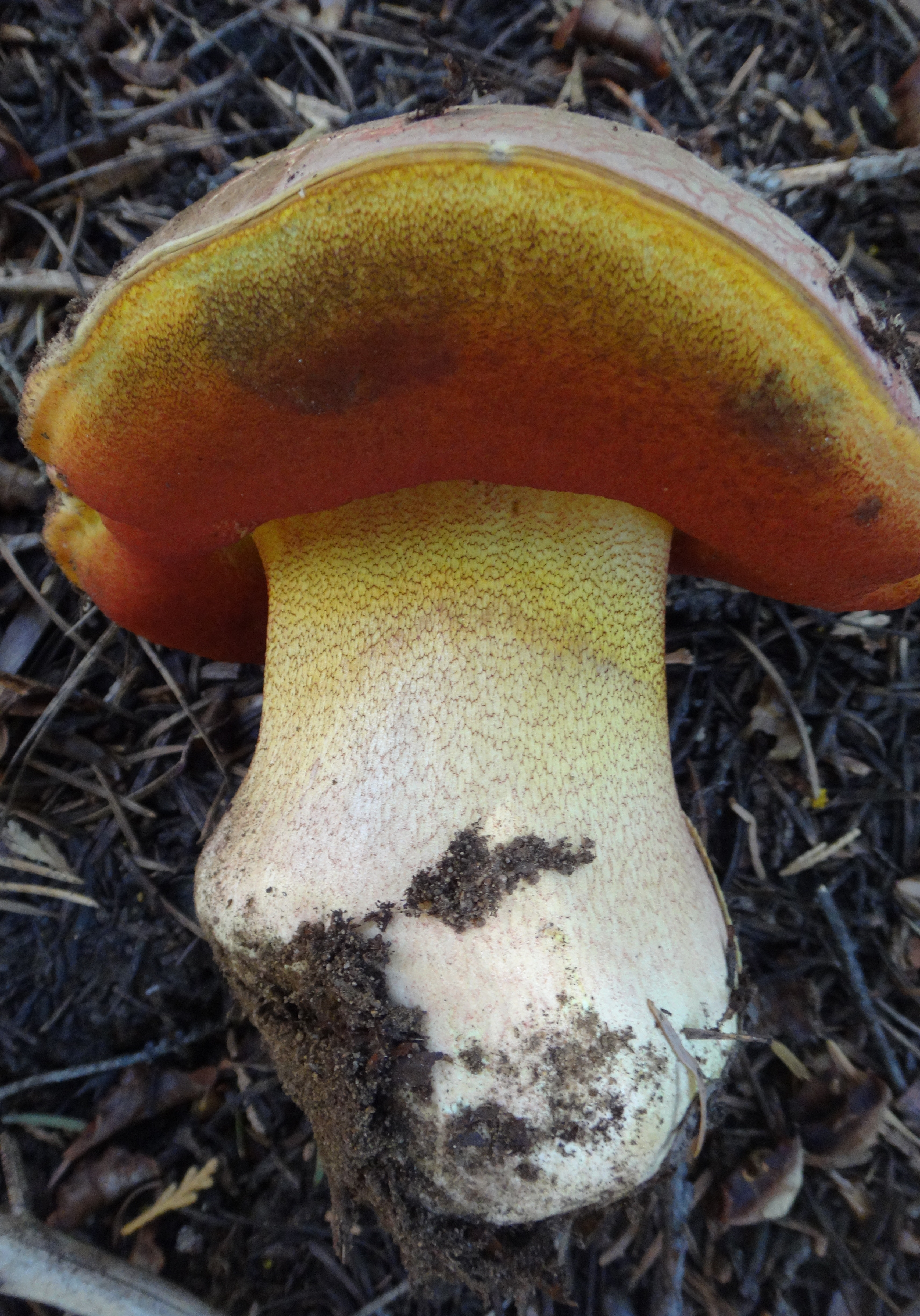 Rubroboletus haematinus (Halling) D. Arora & J.L. Frank Image location: Rocky Canyon user trail, Eldorado Co., California, USA Recognized by sight: Large size, reticulation on stipe, red pores; often with an orangish margin, growth under fir in high elevation forest. For more information about this, see the observation page at Mushroom Observer.